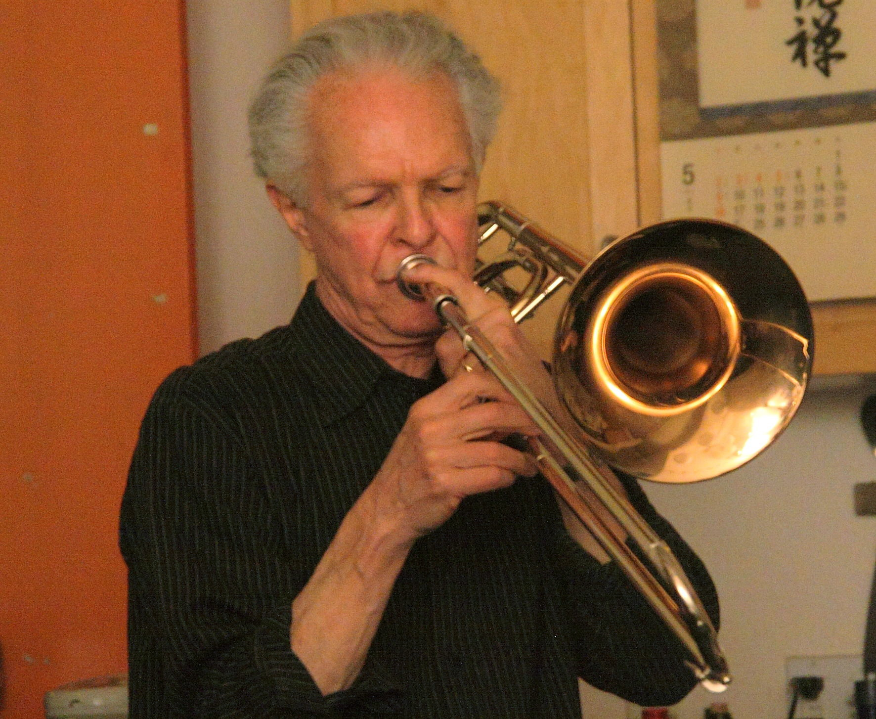 Photo of Stuart Dempster at "In the Mood for Food"